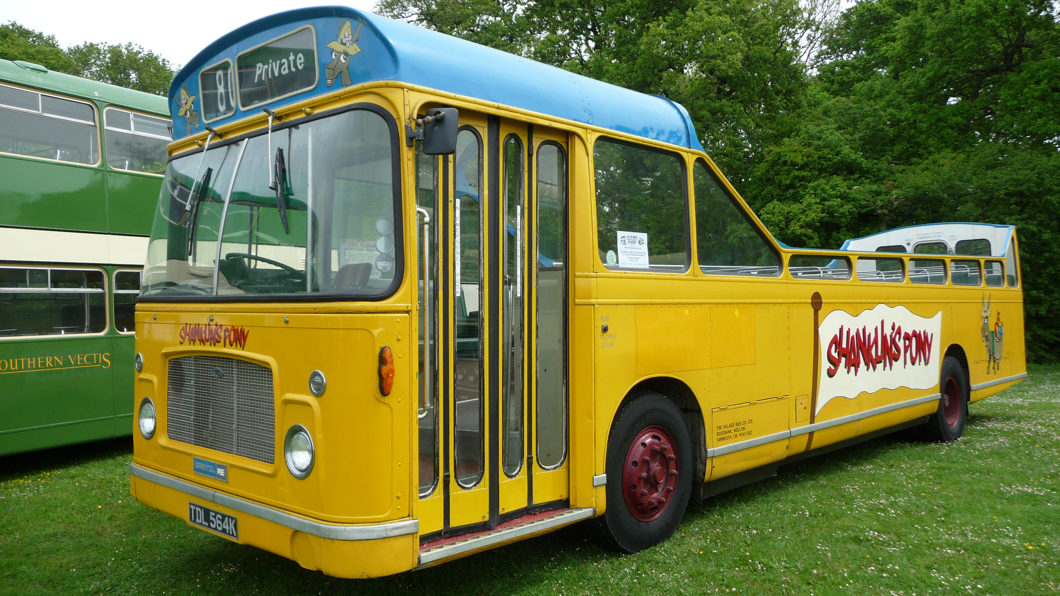 Preserved Southern Vectis 864 Shanklin's Pony (TDL 564K), a Bristol RE/ECW, at the Bustival event, Havenstreet, Isle of Wight, celebrating the 80th anniversary of Southern Vectis.